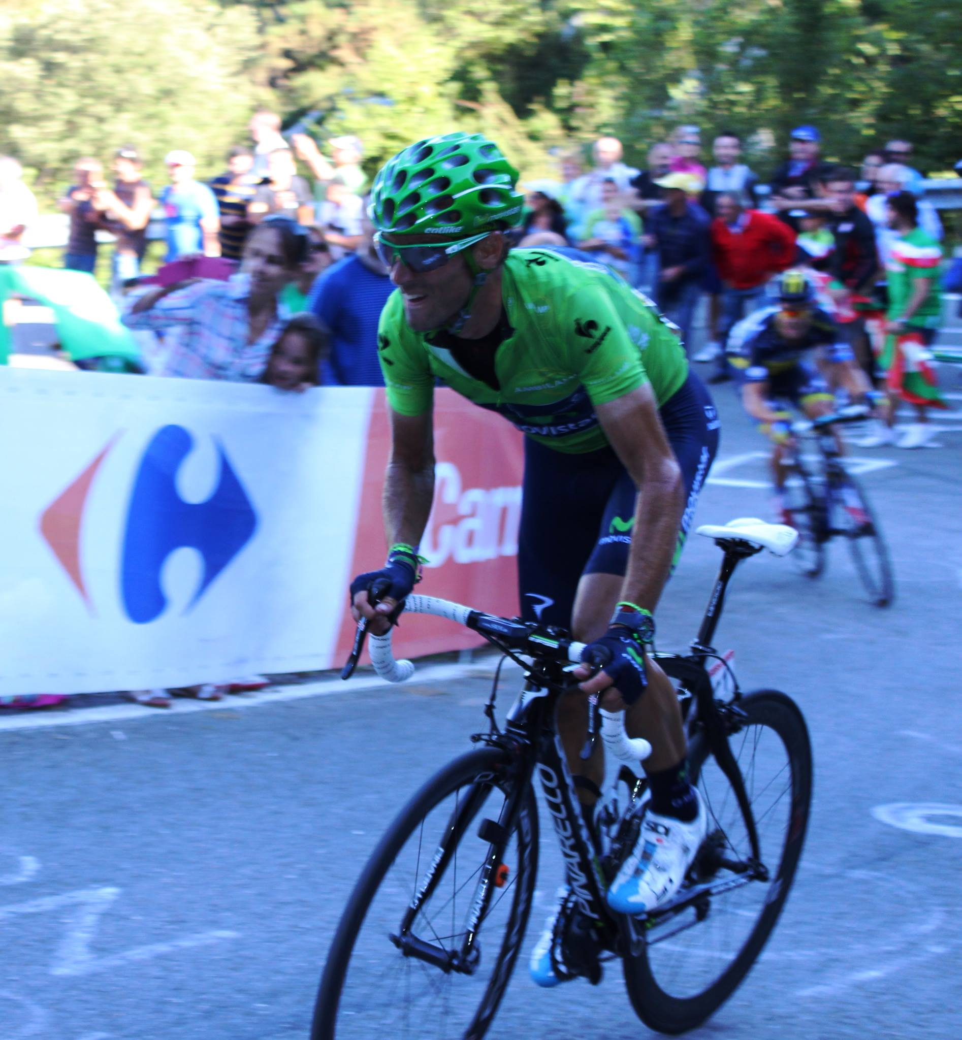 The spanish cyclist Alejandro Valverde